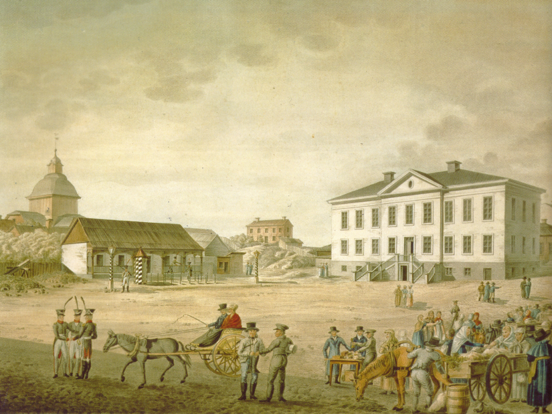 Watercolor painting of the Main Square in Helsinki by Carl Ludvig Engel.